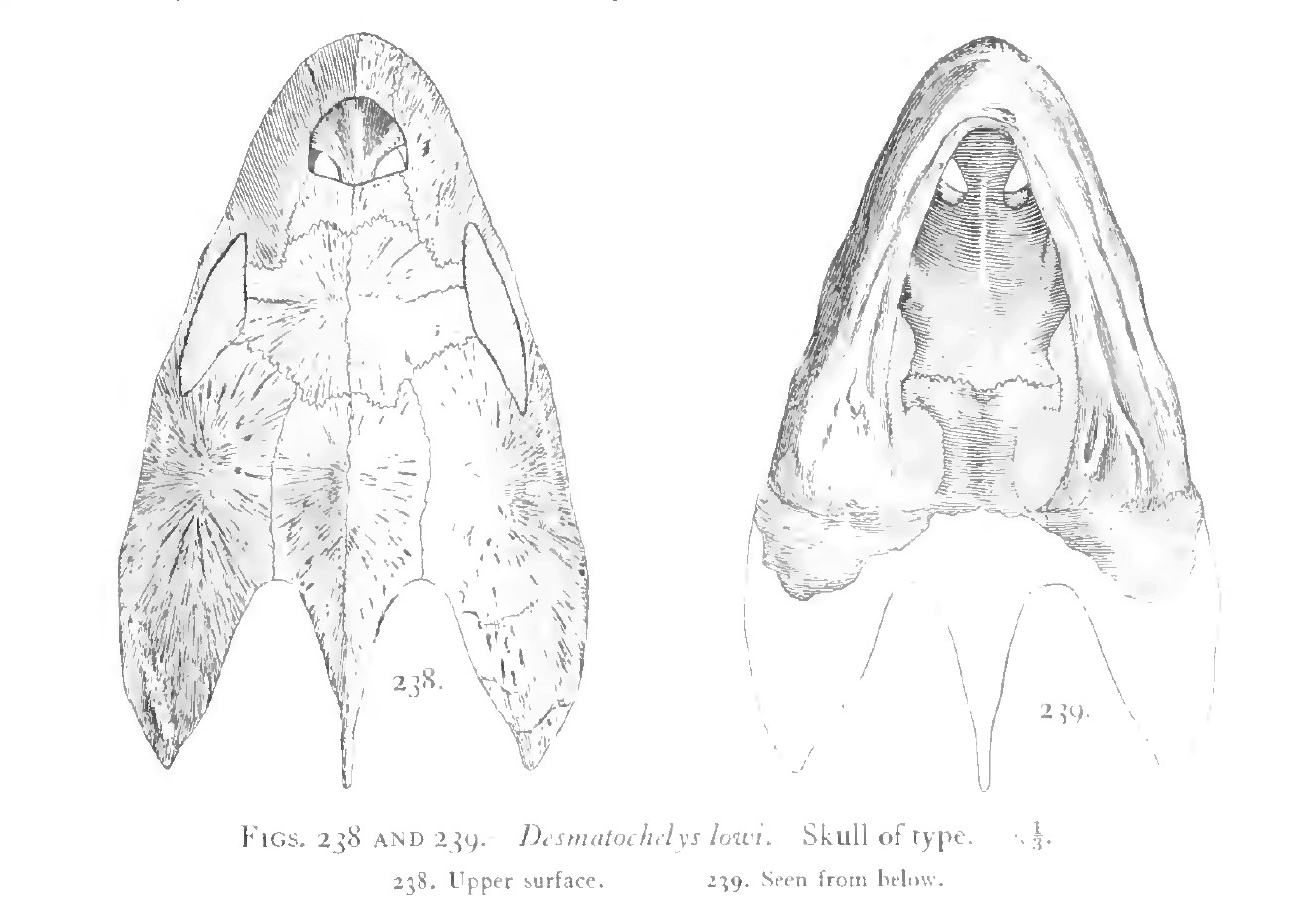 Skull of Protostegid turtle Desmatochelys lowi